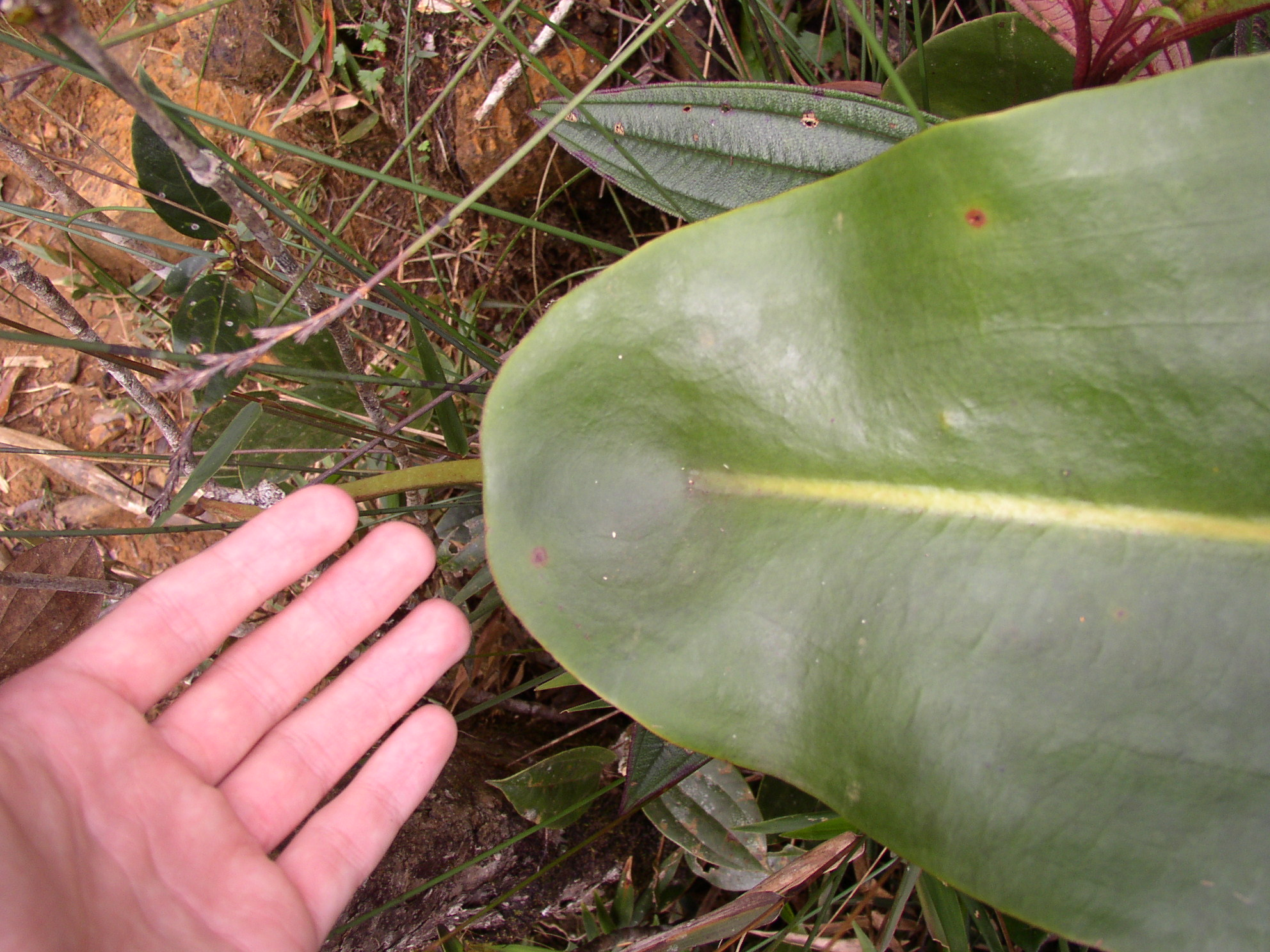 This picture has been moved from This is the original history: 21:00, 22. Jan 2006 . . NepGrower (Talk) . . 1984x1488 (700176 Byte) (Nepenthes rajah peltate leaf attachment.)